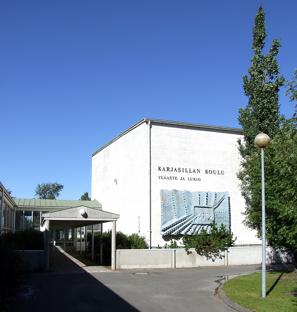 Karjasilta secondary school, Oulu (Finland)